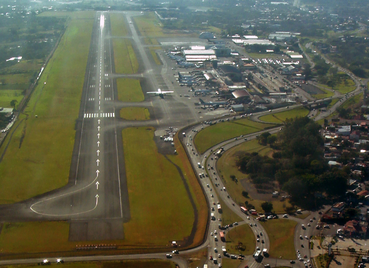 Aerial view of Juan Santamaria International Airport (SJO), Alajuela